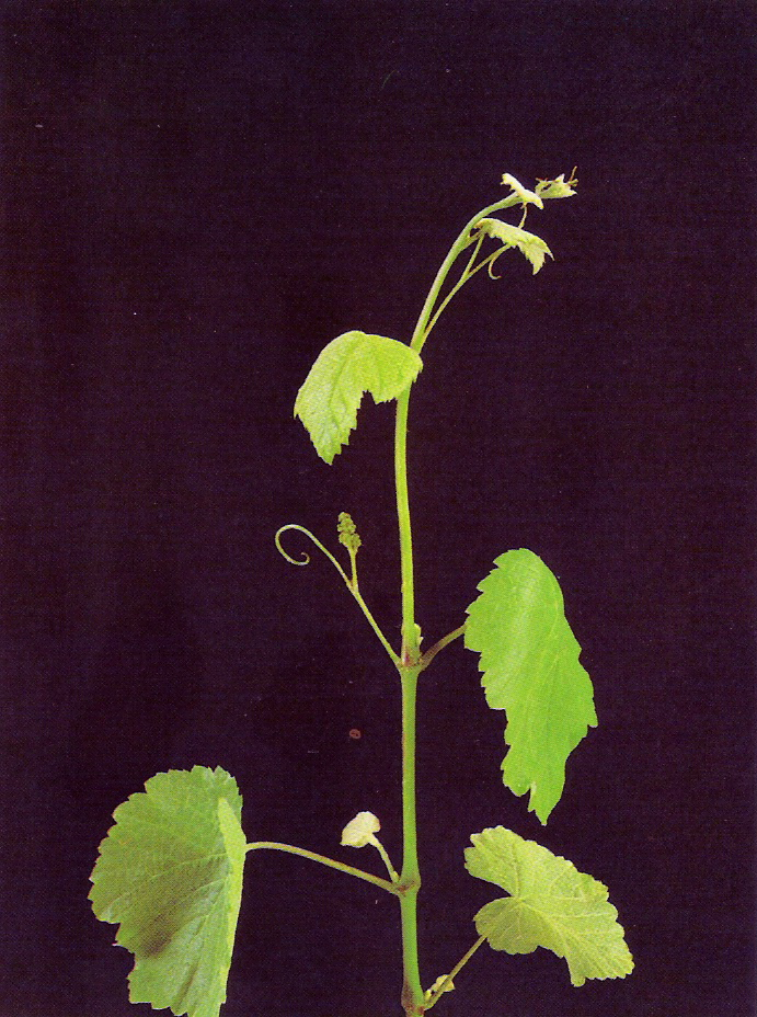 pampano de alvarinho